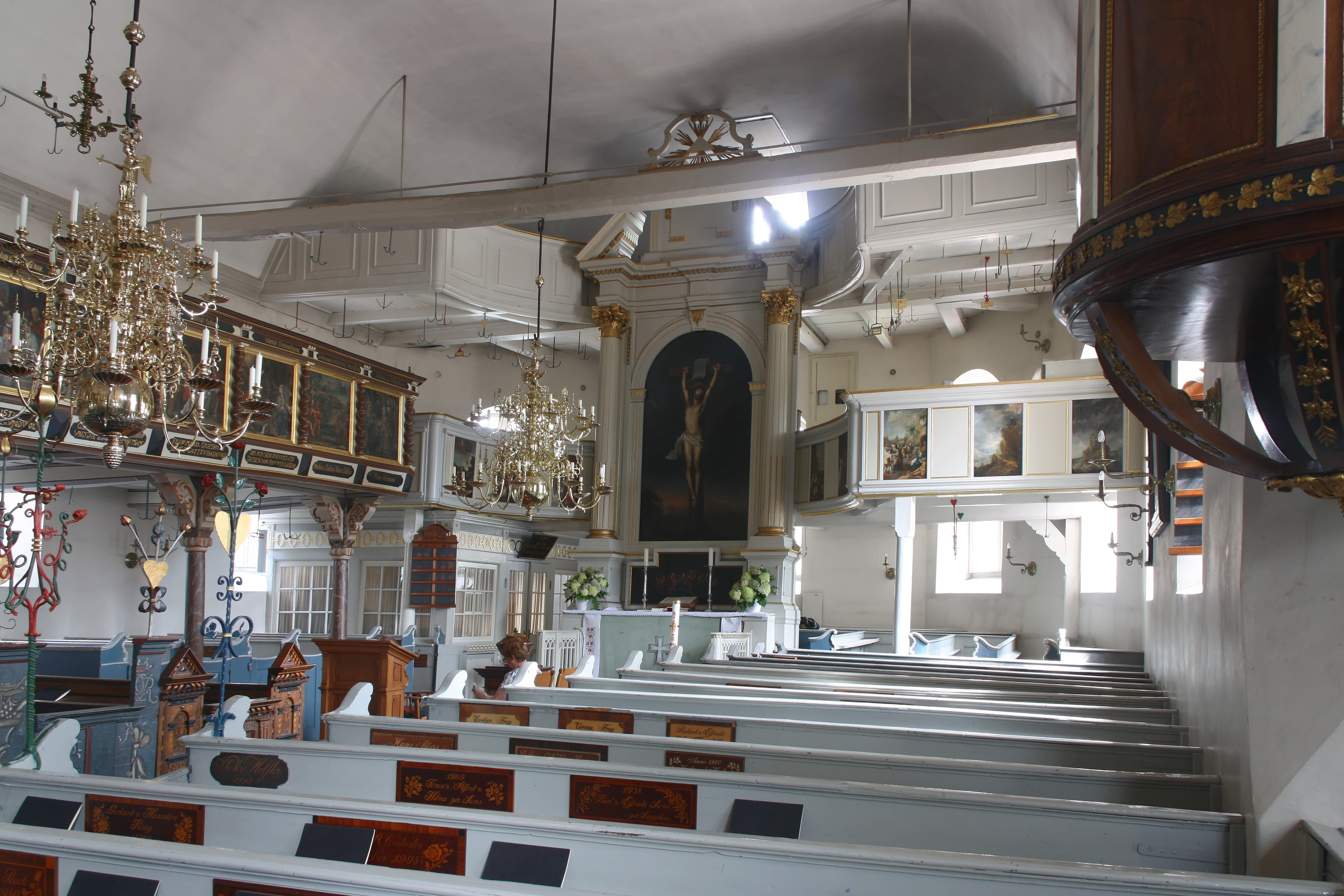 Church St. Severini, Hamburg-Kirchwerder, interior, altar